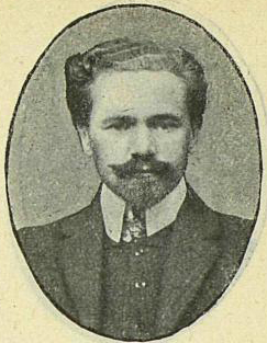 Vladas Stašinskas, a member of the Second Russian State Duma, 1907